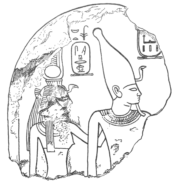 Drawing of a broken limestone stele depicting pharaoh [Kha]kau[re] (Senusret III, 12th Dynasty), wearing the crown of Upper Egypt, and his queen Meretseger. Stela datable to the New Kingdom, long after the life and death of this king and queen. British Museum, EA846.